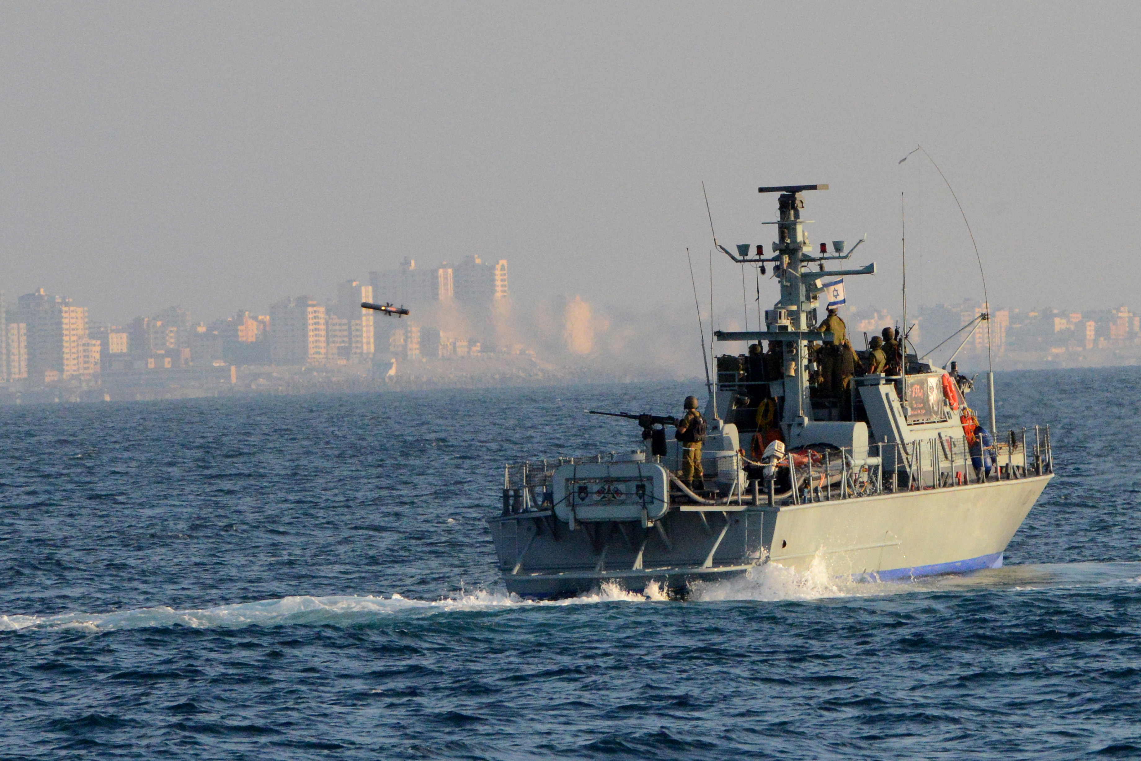 During Operation Protective Edge, the Israel Navy Shaldag class patrol boat #837 makes targeted strikes on Gaza from the Mediterranean Sea. For more updates: The Israel Defense Forces Facebook The Israel Defense Forces blog Follow us on Twitter